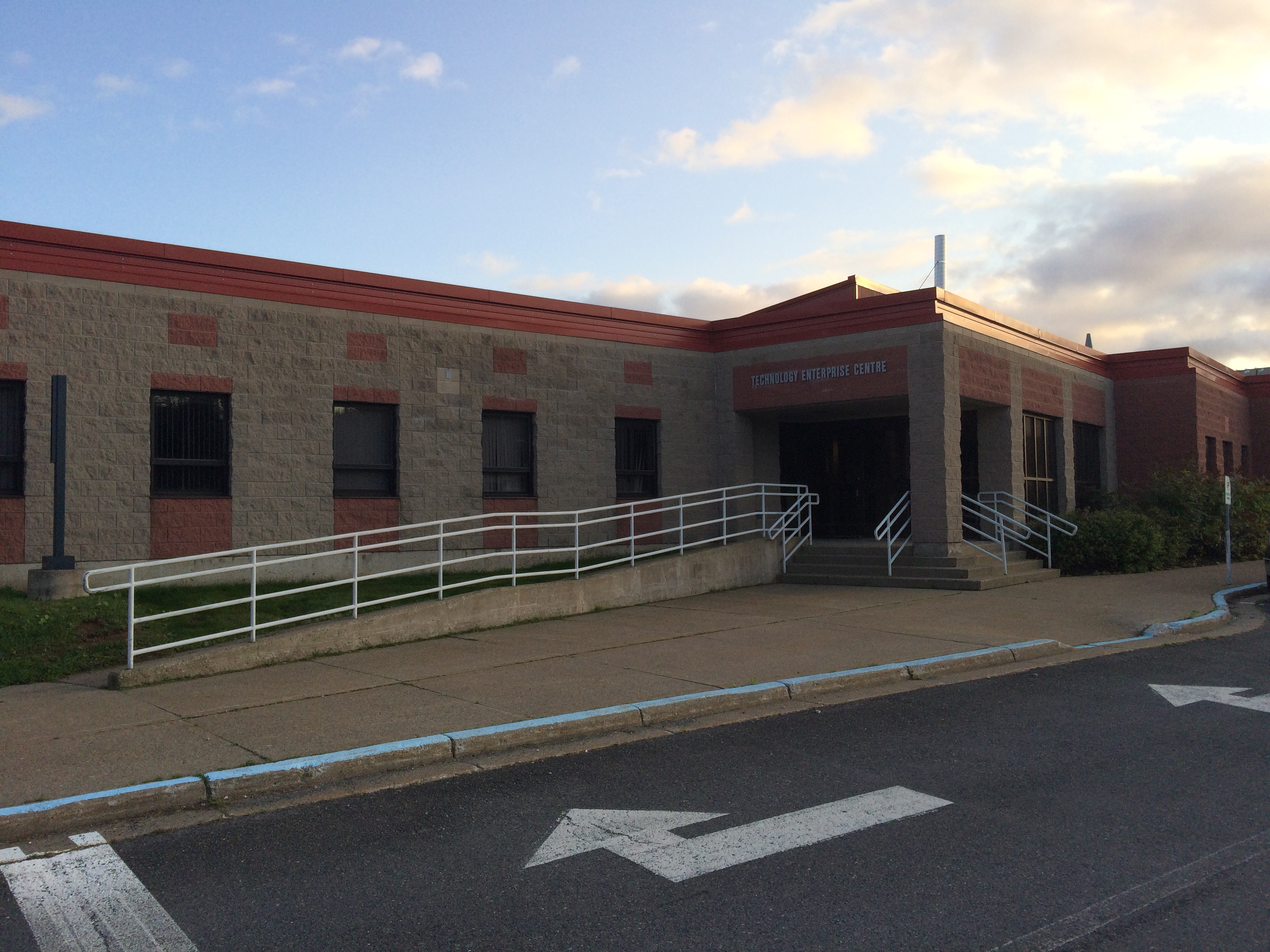 The Tech Centre, Block TC.